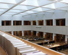 Bodleian Law Library Reading Room